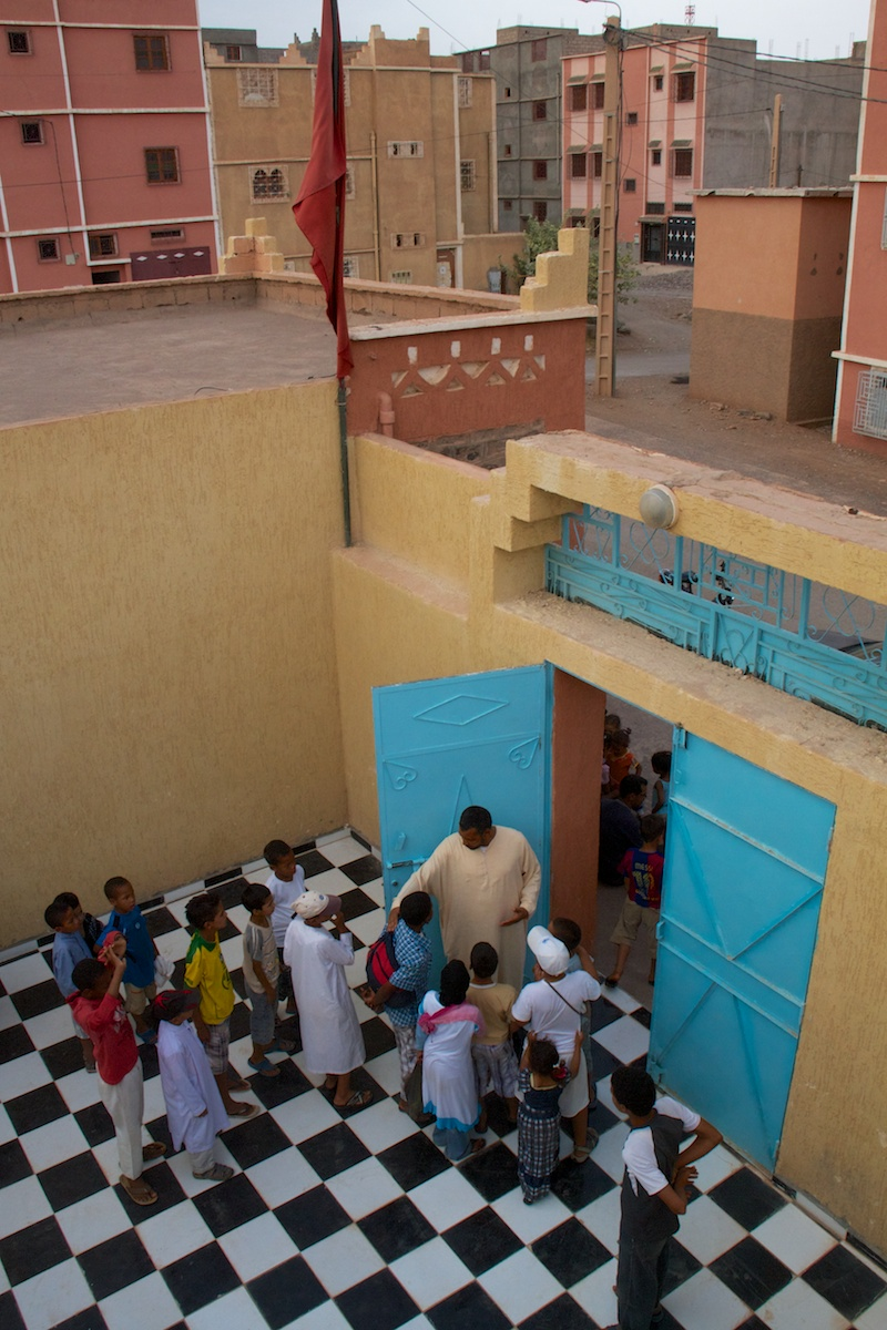 Dar Chebab Mohammed Ezzarktouni is located in Agdz, Morocco and serves the youth of the community.